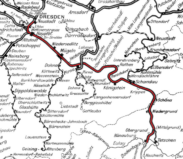 Map of the railway line from Dresden to Děčín (detail of this map).